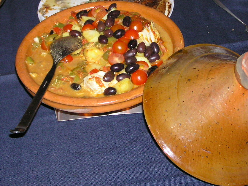 Tajine with olives